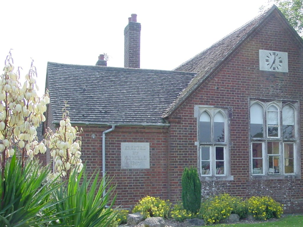 Lockyers County Middle School in the Village of Corfe Mullen